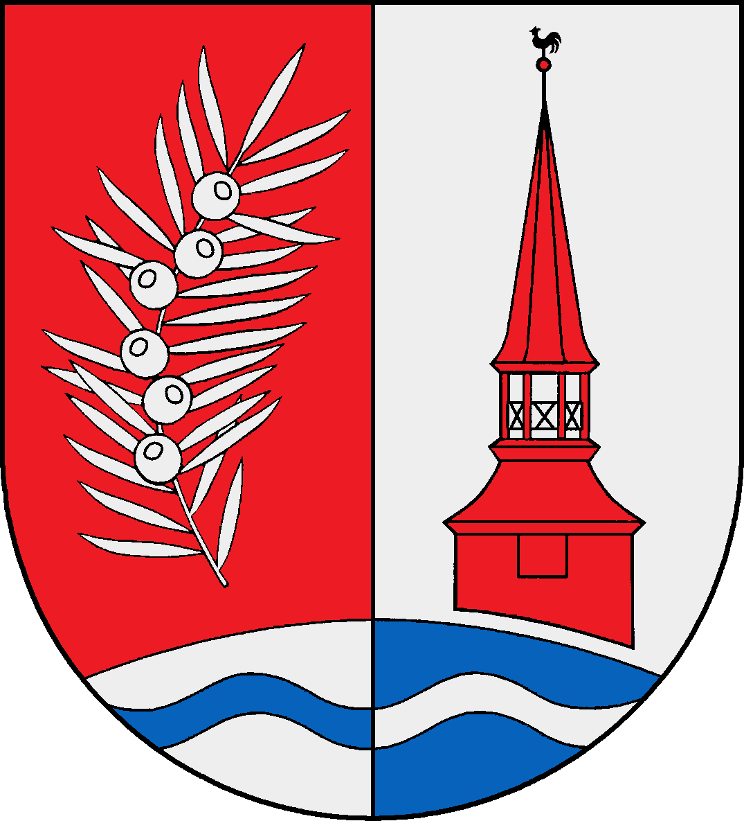 Coat of arms of the municipality Breitenberg in Schleswig-Holstein, Germany.